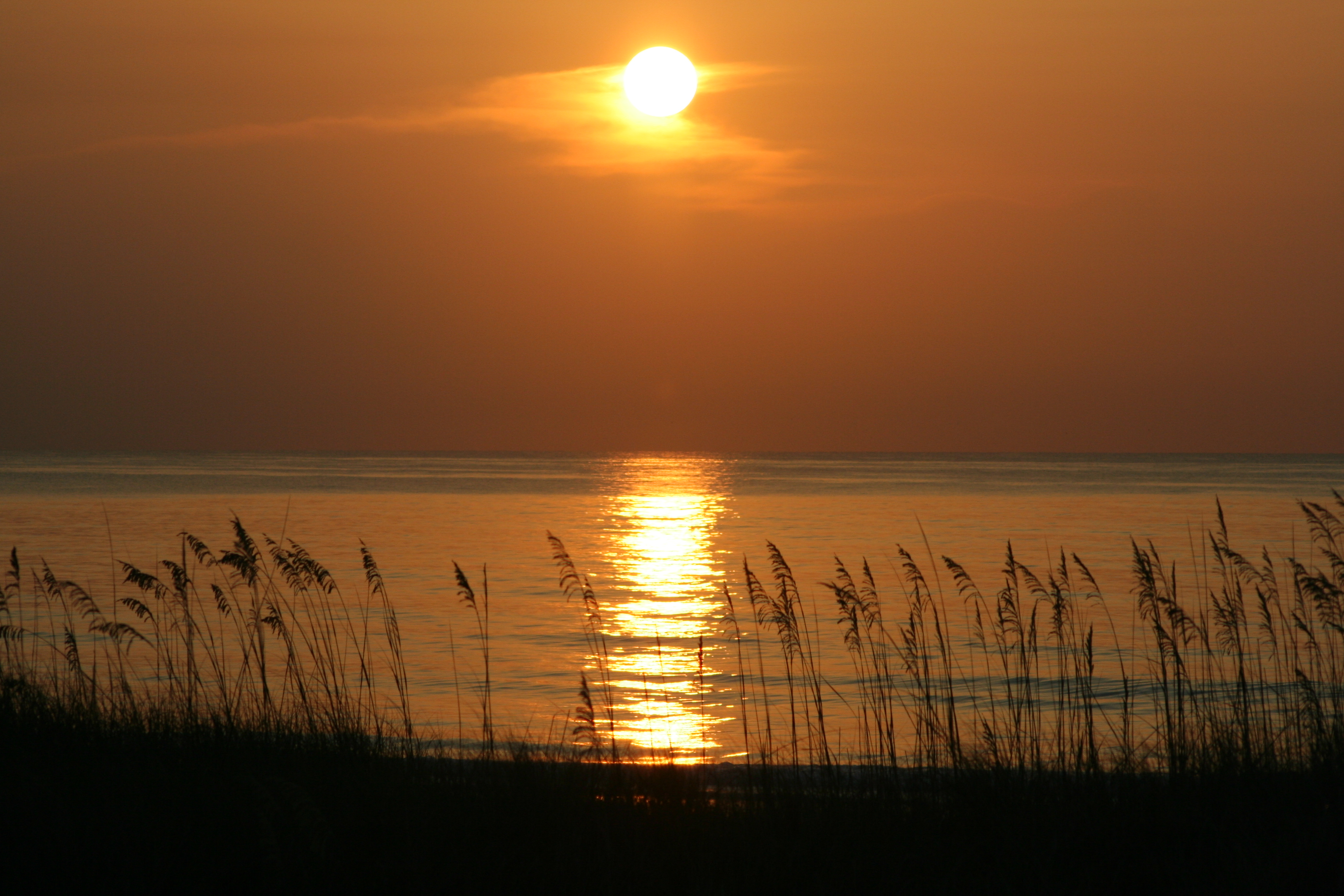 Sunrise, from Ervin's Rest.